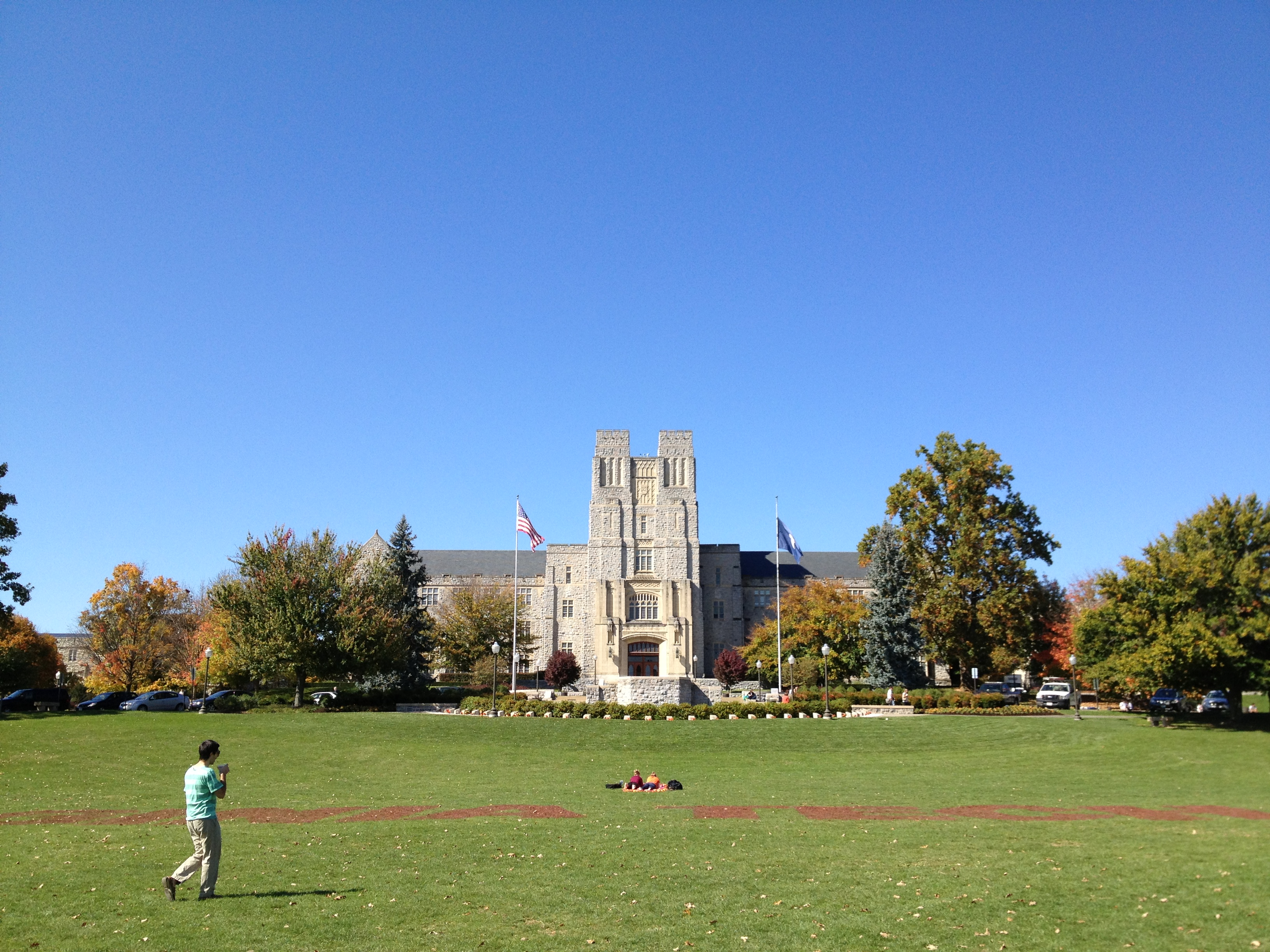 A picture of Burruss Hall, Virginia Tech, taken from the Drillfield